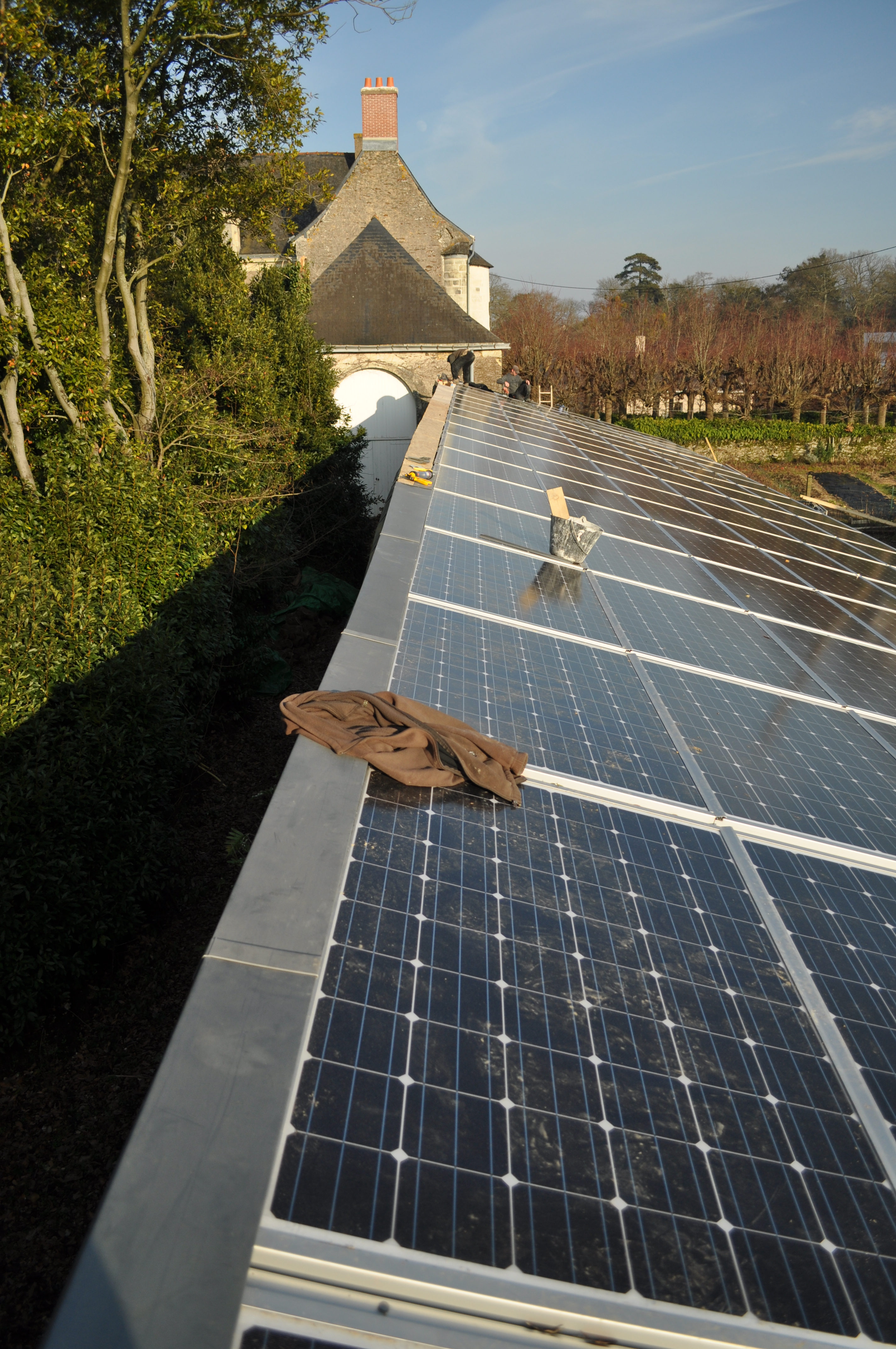 solar panels on a 15th century old manor (